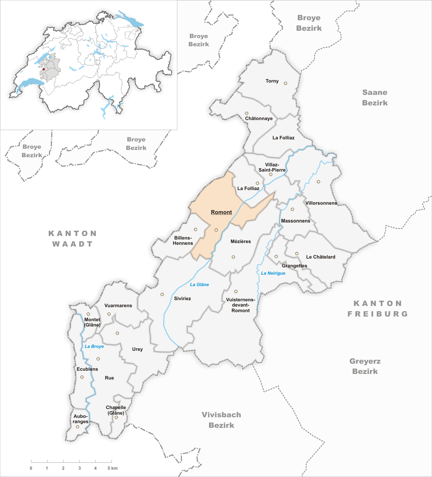 Municipality Romont